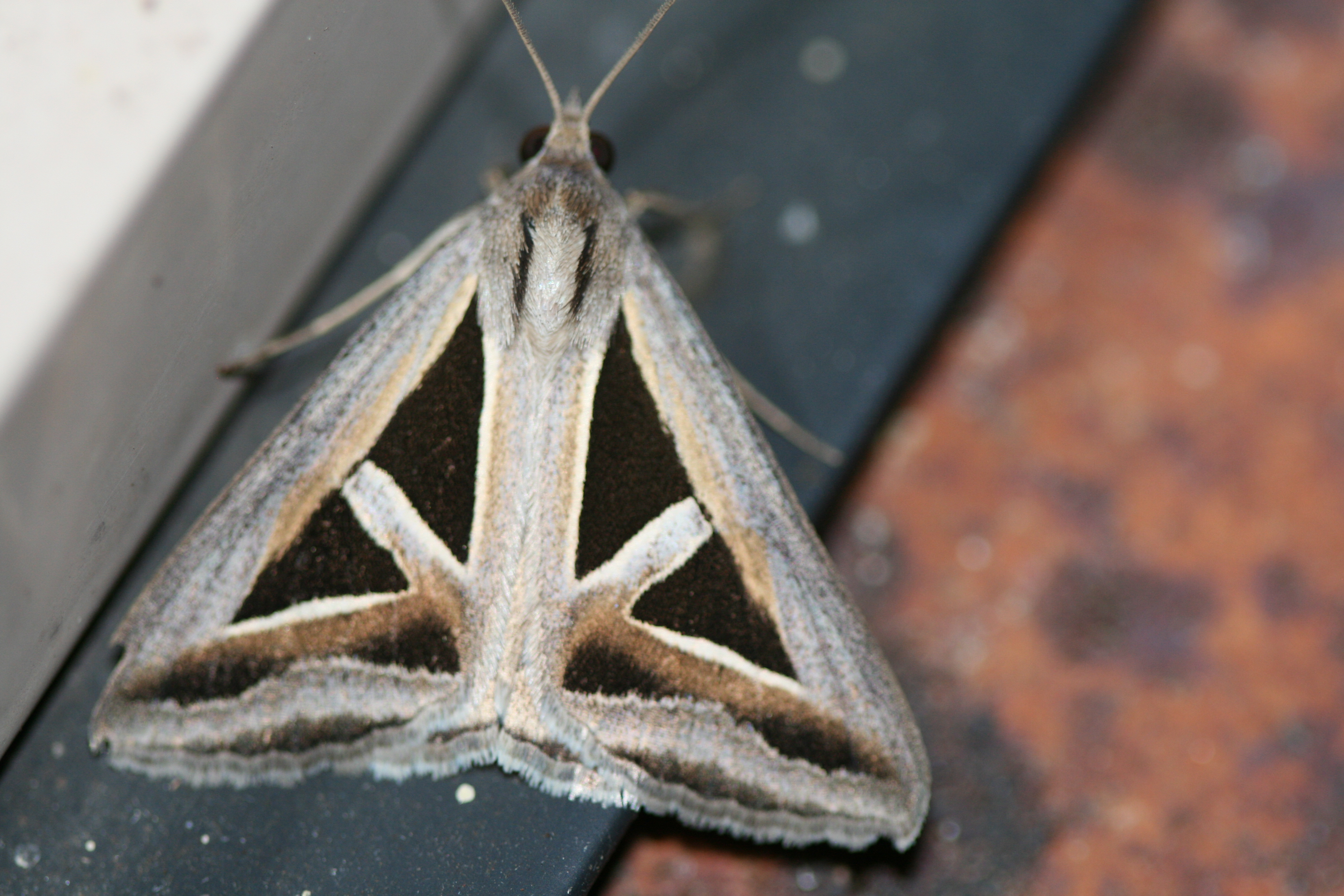 Semi-looper Moth (Trigonodes hyppasia) (Noctuidae: Catocalinae) near Toowoomba, Queensland.